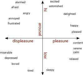 Psychologist Russell's model of arousal and valence